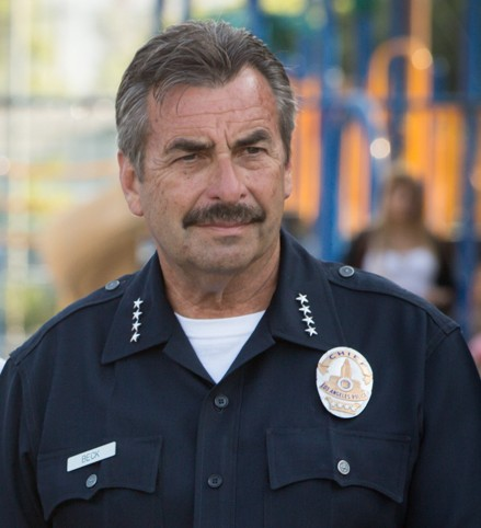 Mayor Garcetti and Chief Charlie Beck meet with citizens to kick off the 7th annual Summer Night Lights program.